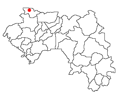 Koundara, Guinea Location Map; created with the GIMP. Made by User:Acntx.